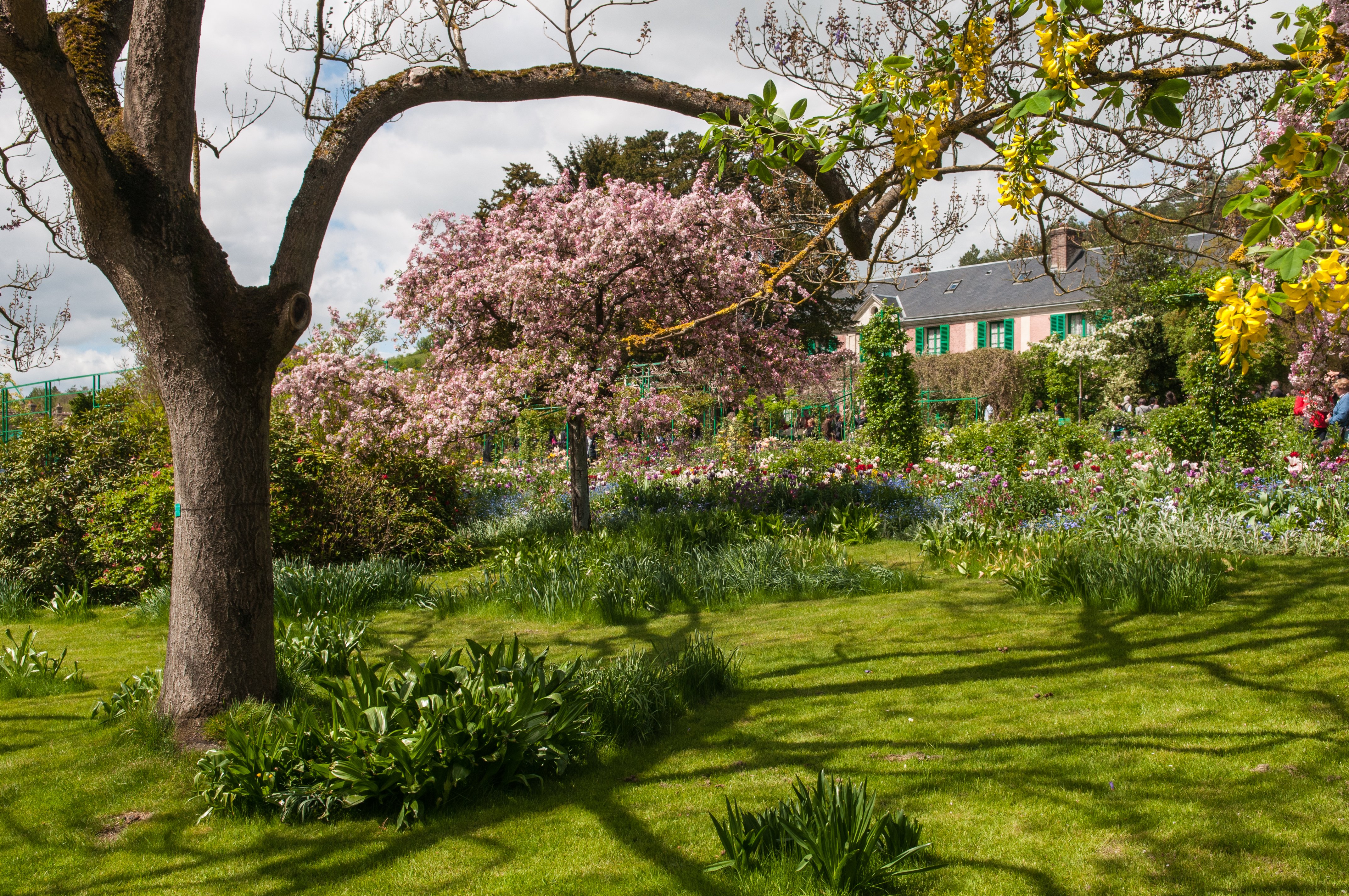 Claude Monet house and garden in Giverny